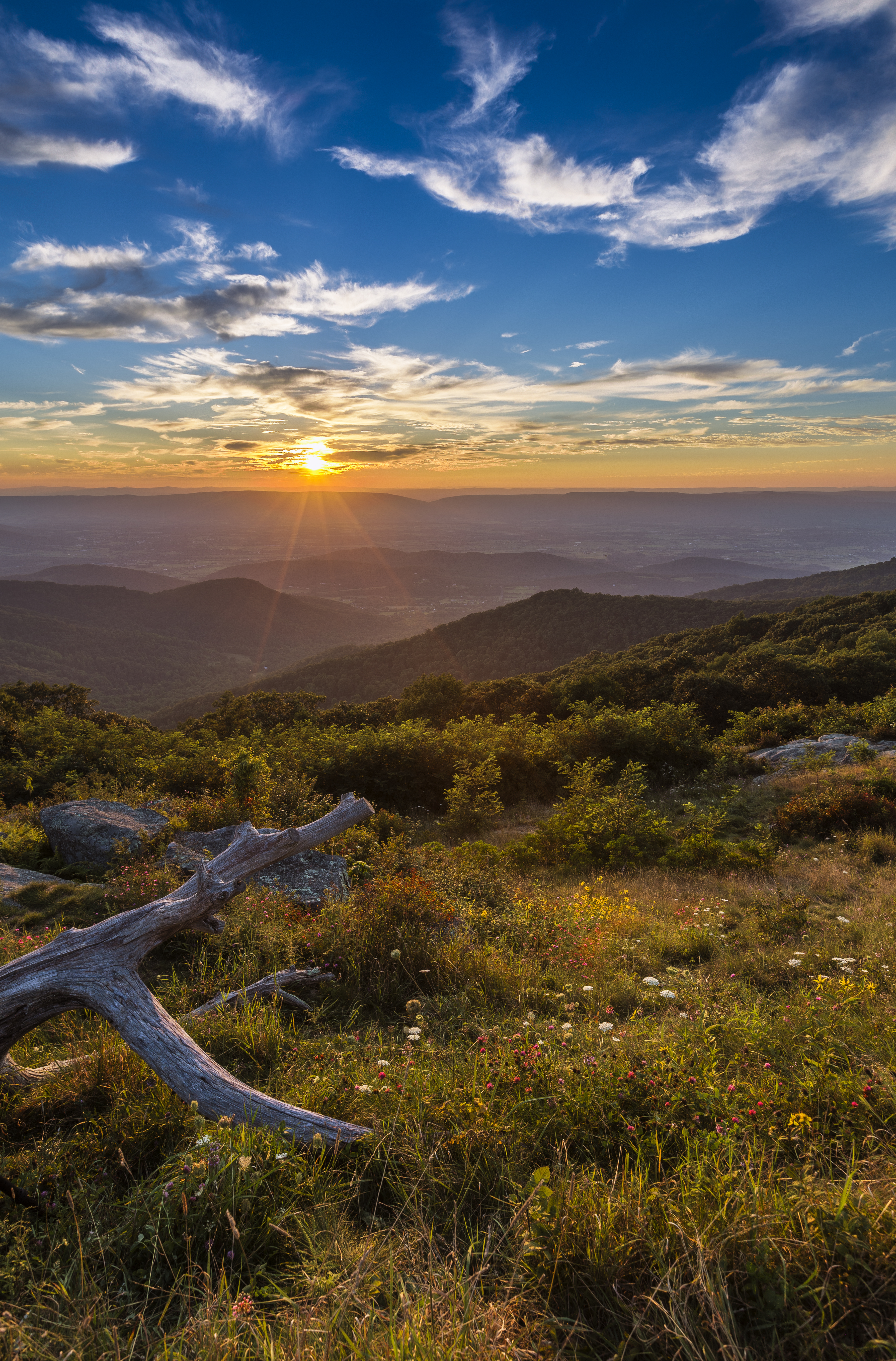 NPS | N. Lewis Timber Hollow Overlook is a splendid place to watch the sun go down.